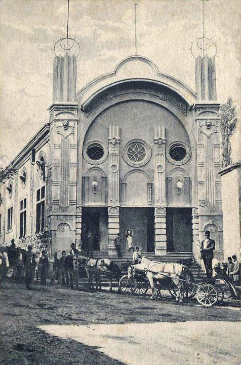 Postcard of Sümer Opera Binası, Trebizond (Trabzon, Turkey)